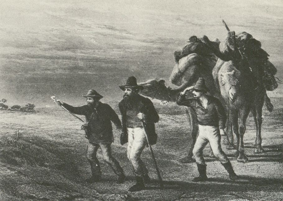 Burke, Wills and King on the way back from the Gulf of Carpentaria.